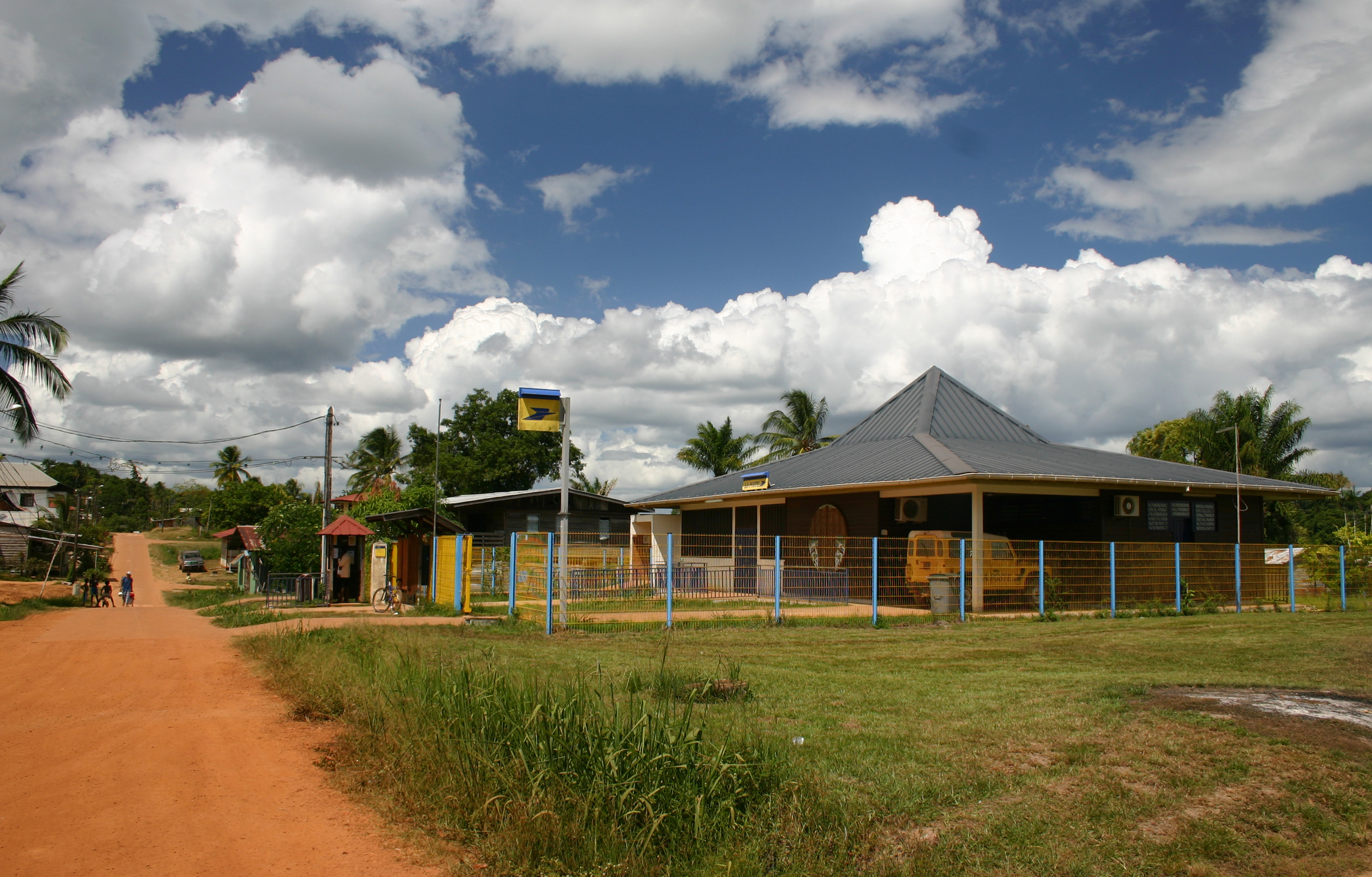 Maripasoula (French Guiana): Post office